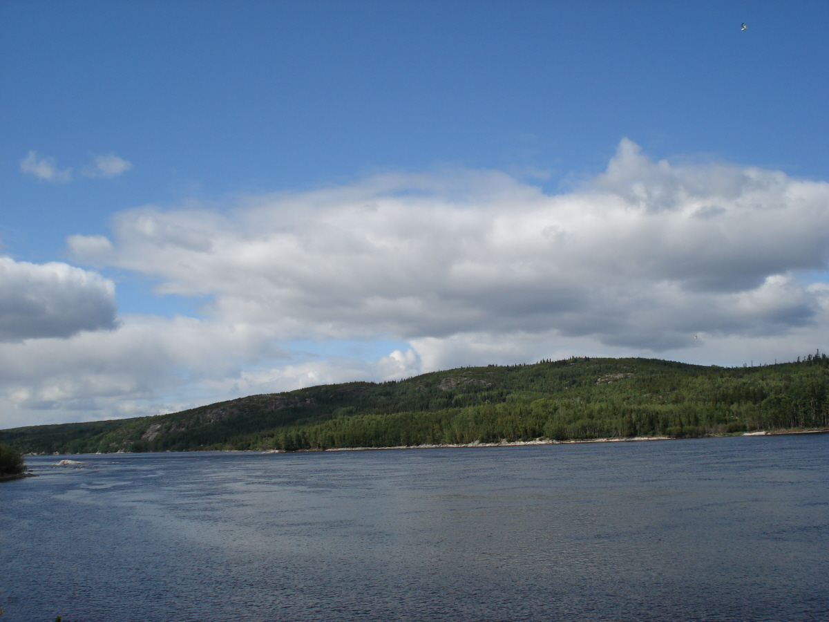 La Grande Rivière, Quebec (near Radisson.)